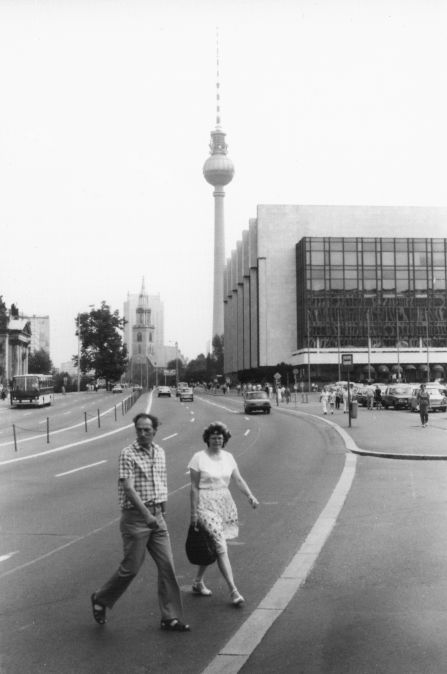 Two people cross the Karl-Liebknecht-Straße at Marx-Engels-Platz in East Berlin. In the right background is the Palast der Republik, behind it you can see the Marienkirche and the Berliner Fernsehturm.